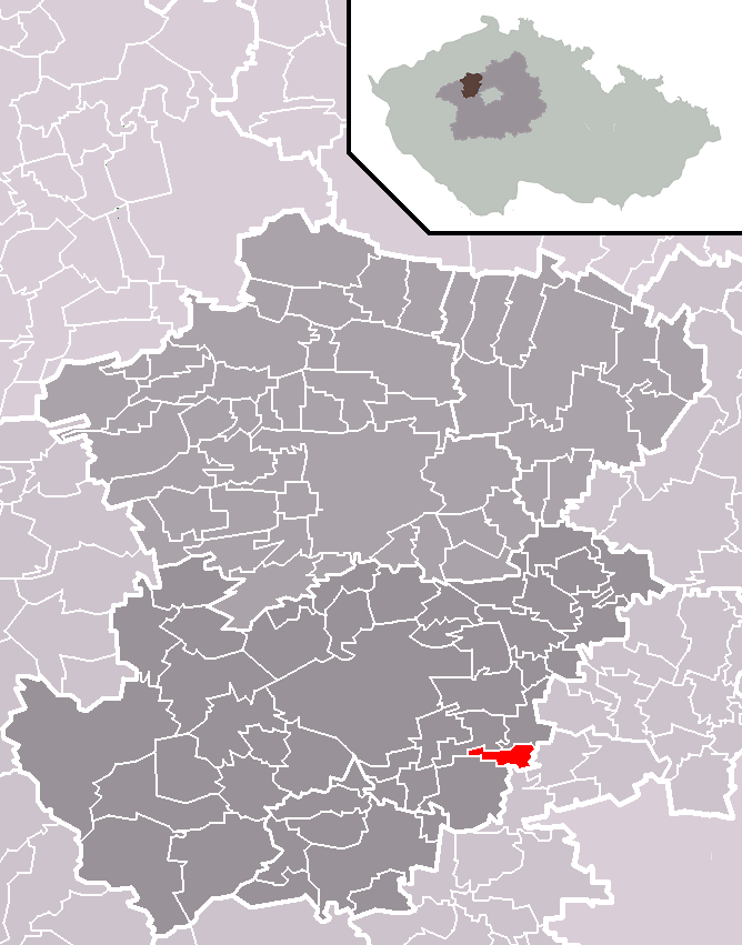 Location of Běloky municipality within Kladno District and administrative area of Kladno as a Municipality with Extended Competence.